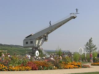 Crane as work of art on the Rhineland-Palatinate Garden Show 2008 in Bingen (Germany)